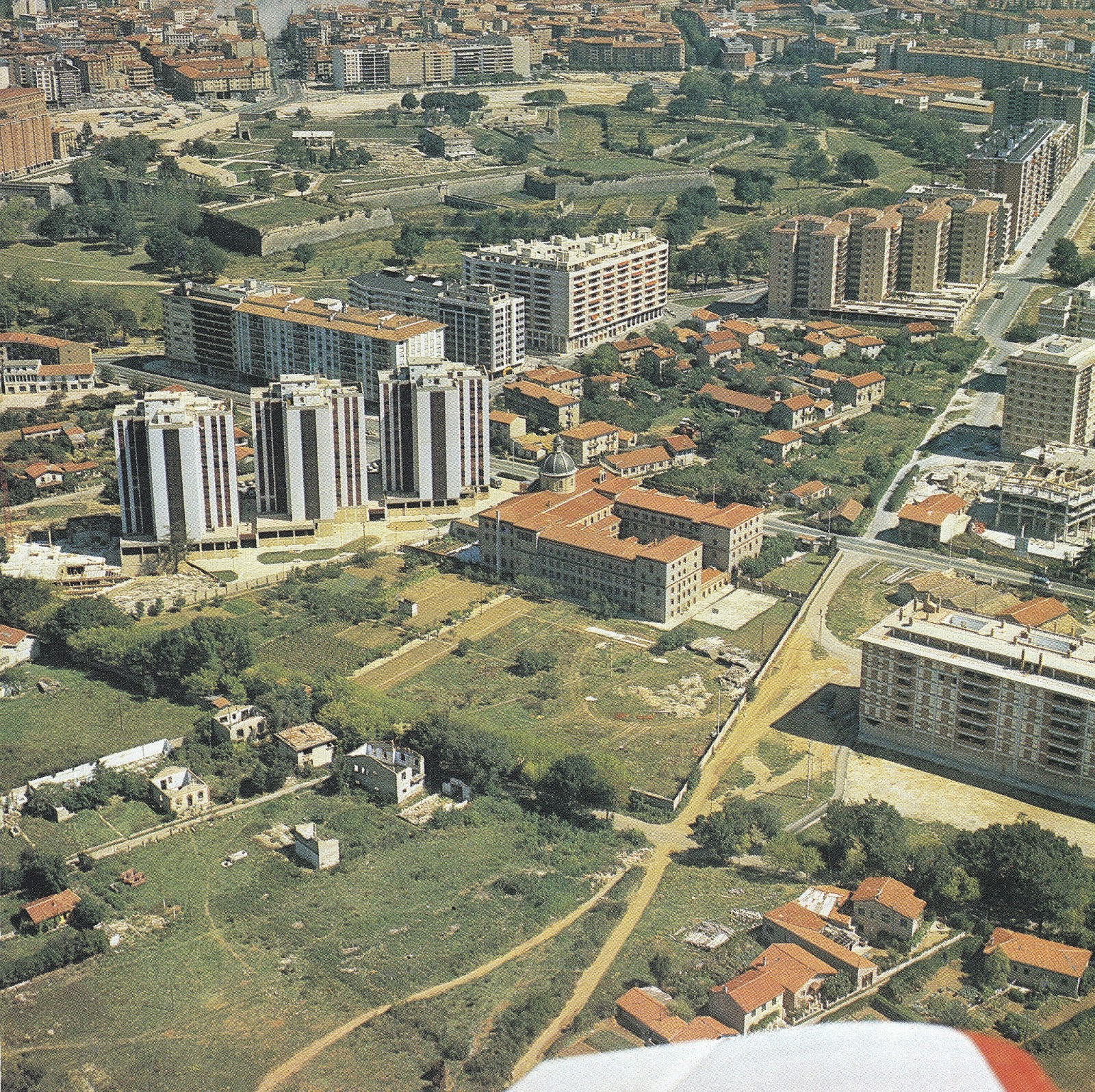 Año 1974